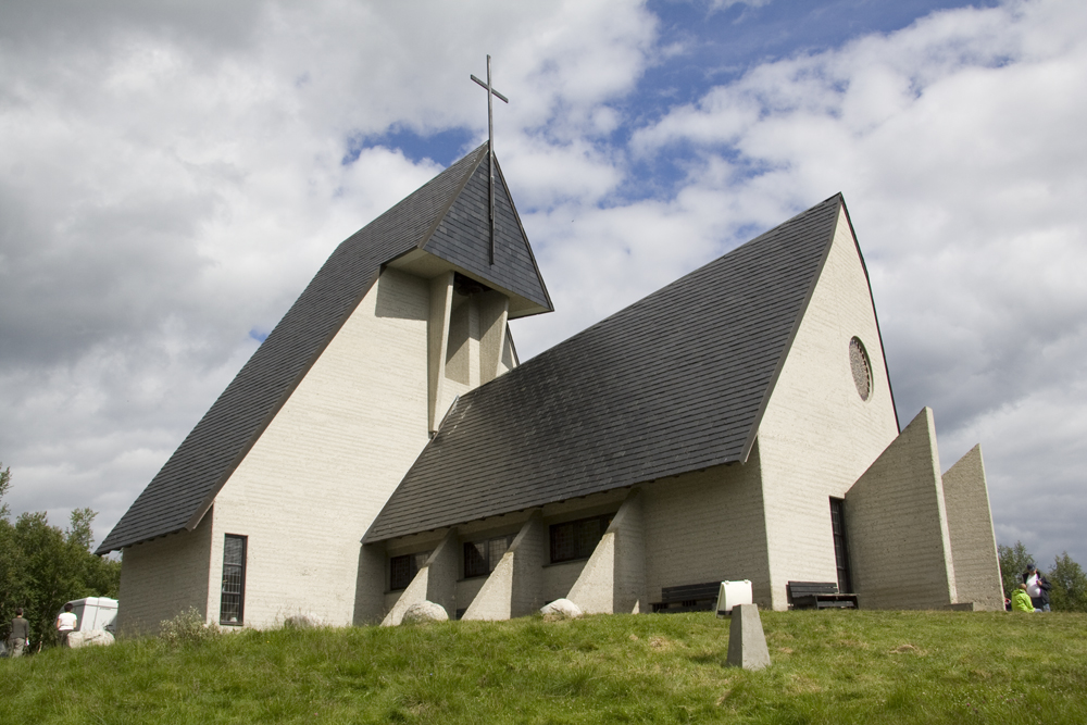 Eysteinskirka near Hjerkinn in Oppland, Norway